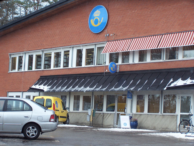 Posten, Karlskrona.